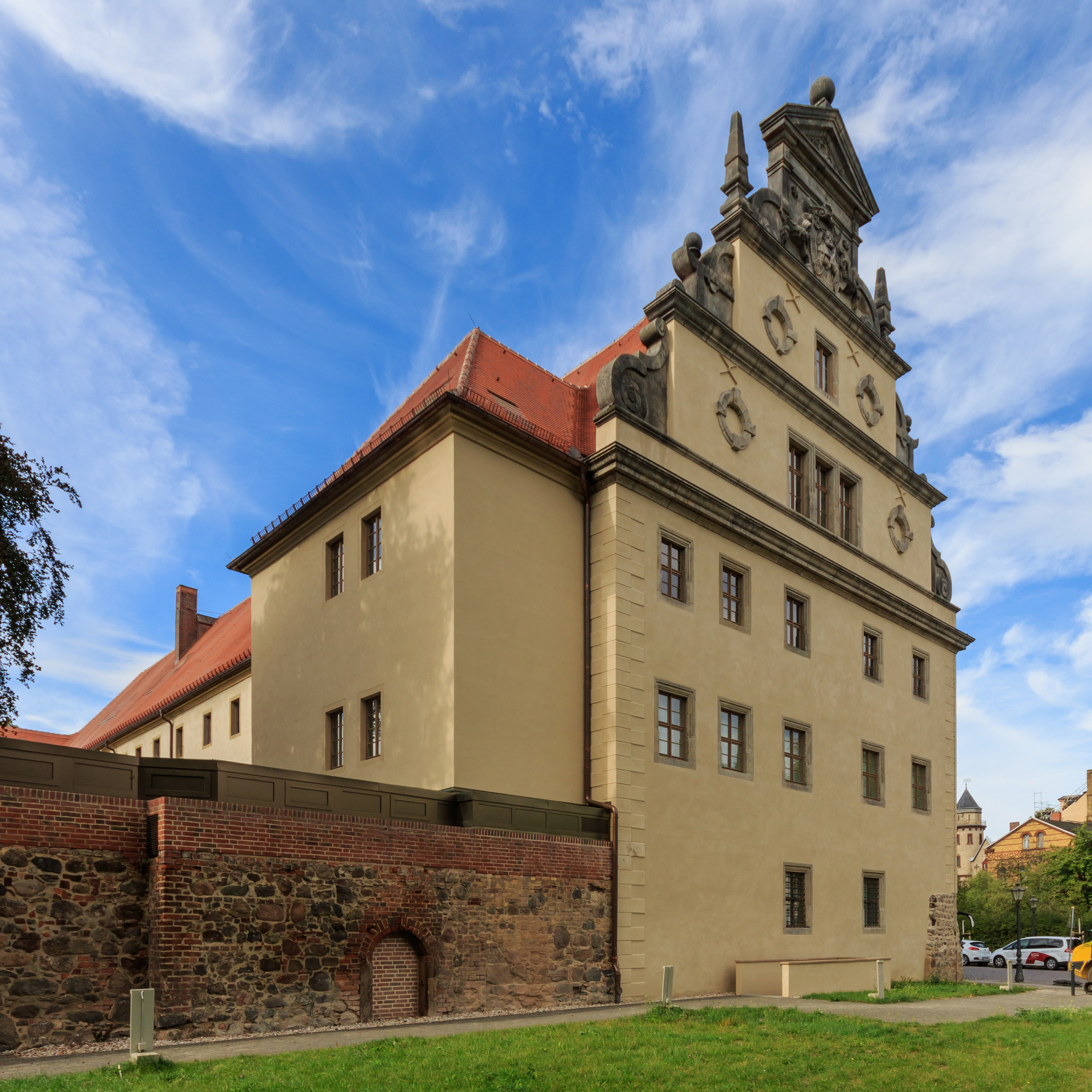 Martin Luther's House in Wittenberg, Saxony-Anhalt, Germany